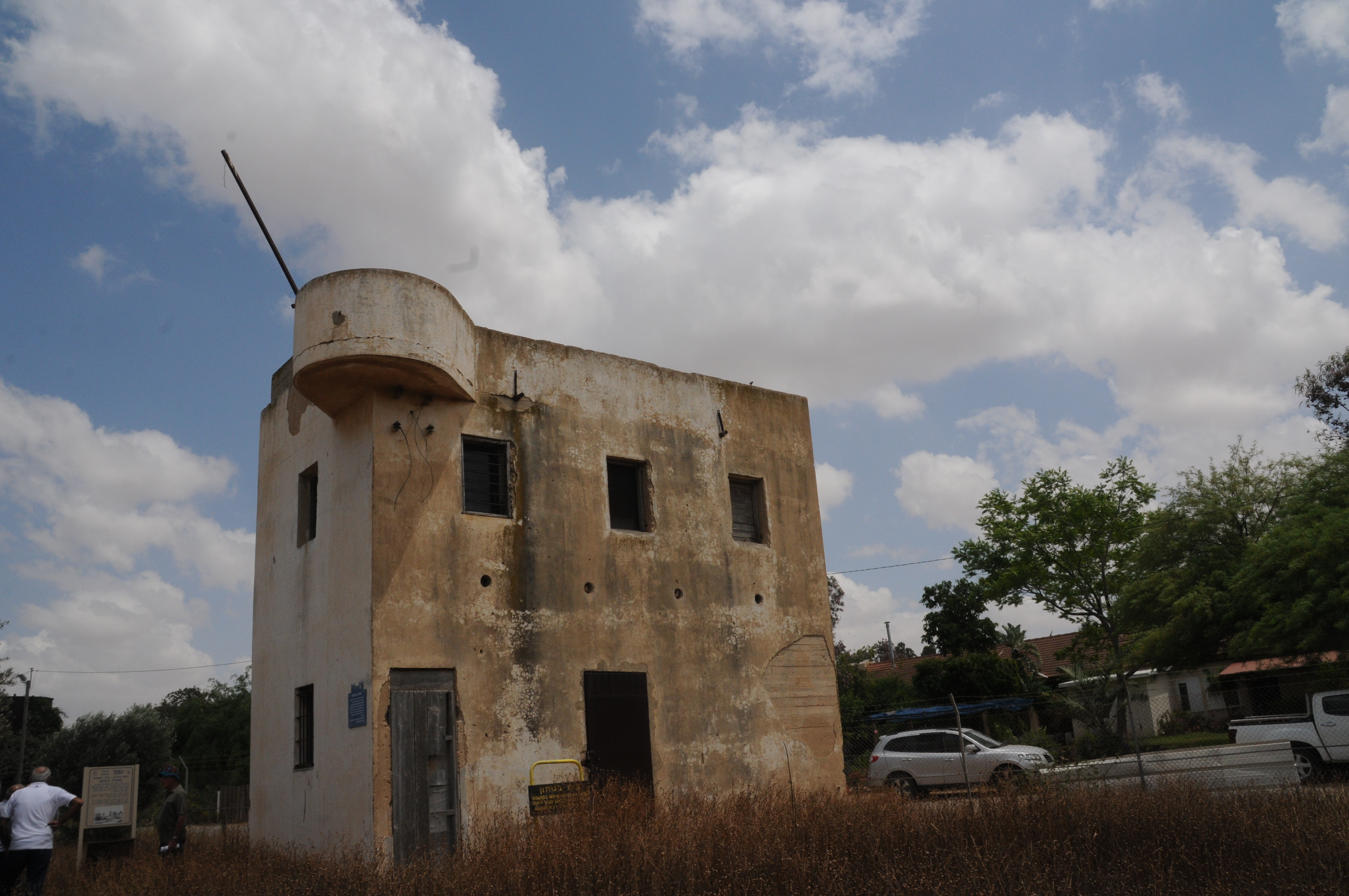 Geography of Israel